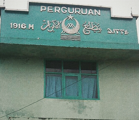 Perguruan MA Pusat Menes, salah satu Perguruan tertua Yang dimiliki Mathla'ul Anwar